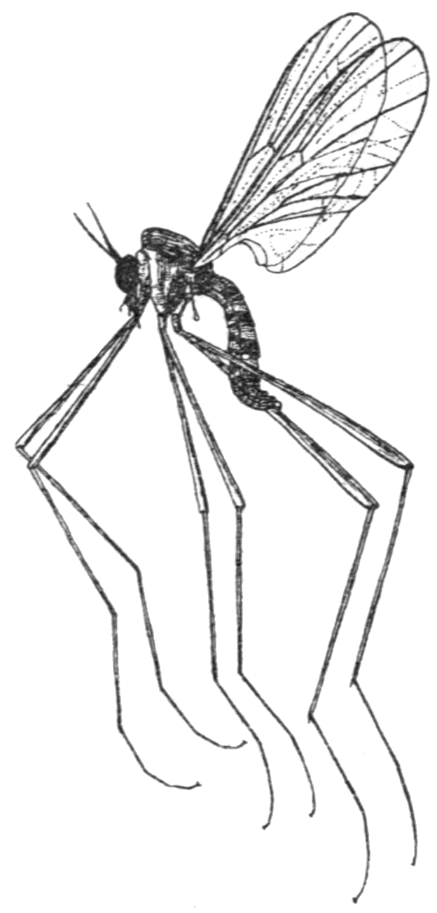 Blepharicera fasciata (Westwood 1842)